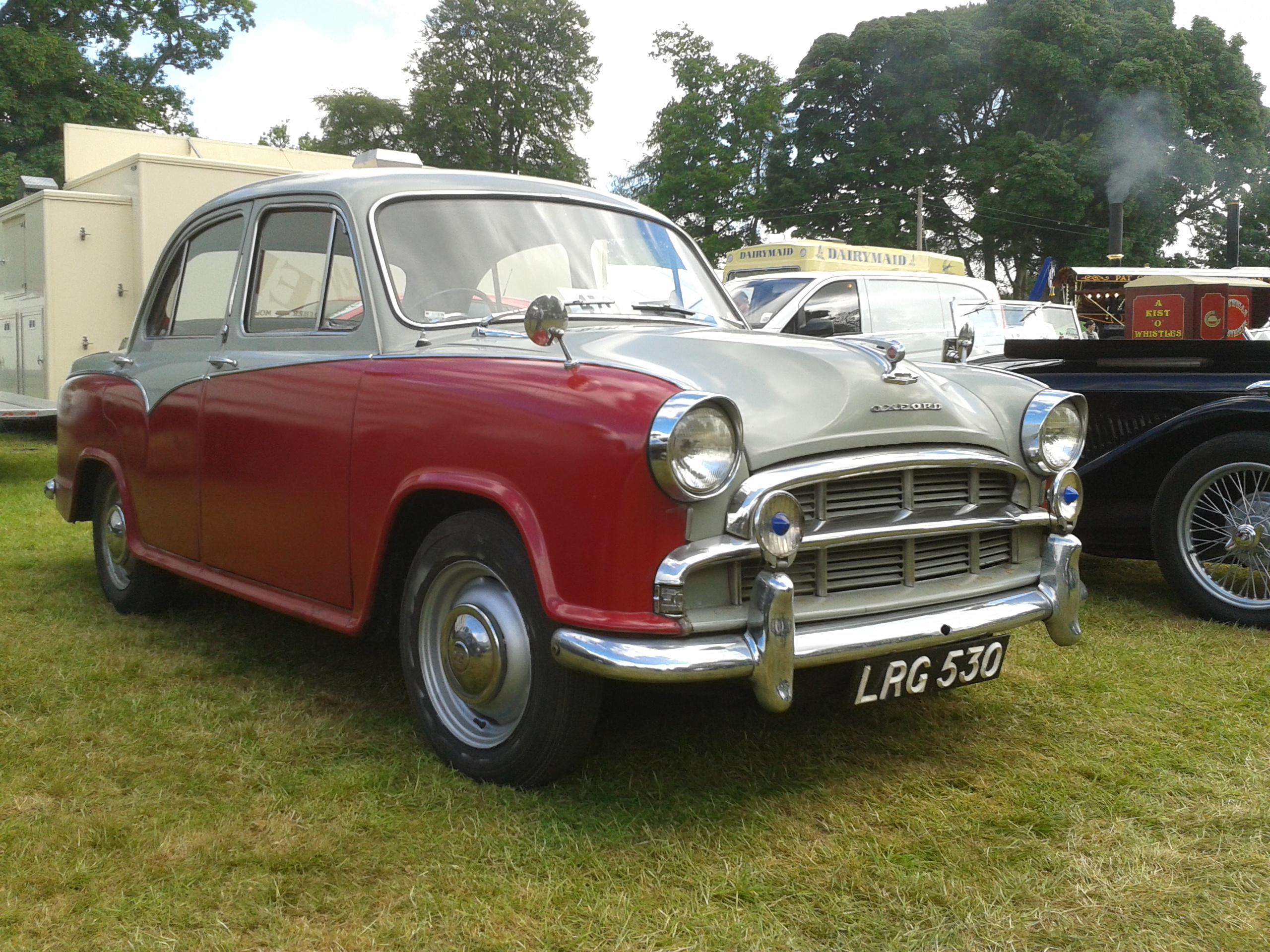 1958 Morris Oxford series III (DVLA) first registered 9 January 1958, 1489cc castle fraser classic vintage